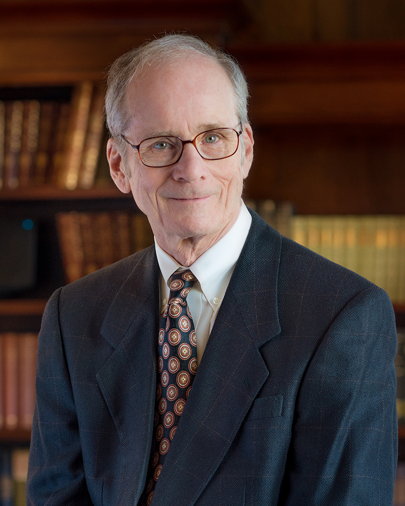 Edward L. Deci, distinguished psychologist and professor